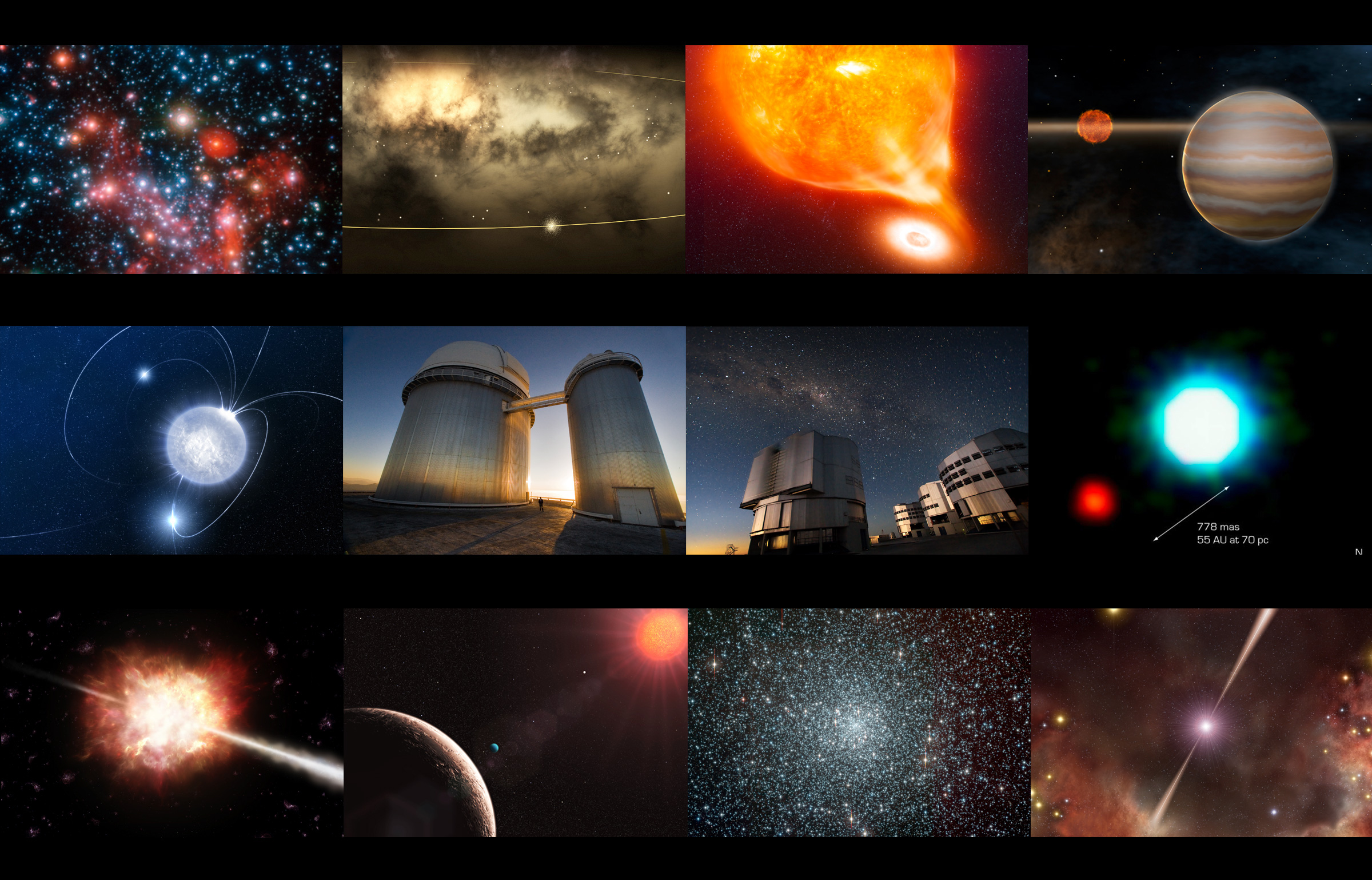 Mosaic of images and artist´s impressions related to the ESO top 10 science discoveries. At the centre, two of the ESO telescopes who have made these ten discoveries and many other more possible. On the left, the ESO 3.6-metre Telescope at La Silla Observatory, in the IV Region of Chile; on the right, the Very Large Telescope (VLT), located on Cerro Paranal, in the II Region of Chile.